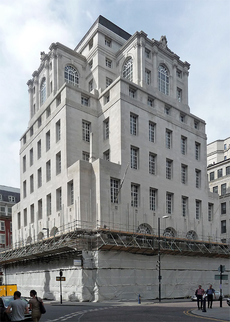 By Edwin Lutyens, 1933-35, with Whinney, Son & Austen Hall (Pevsner says they "took care of the practical side").